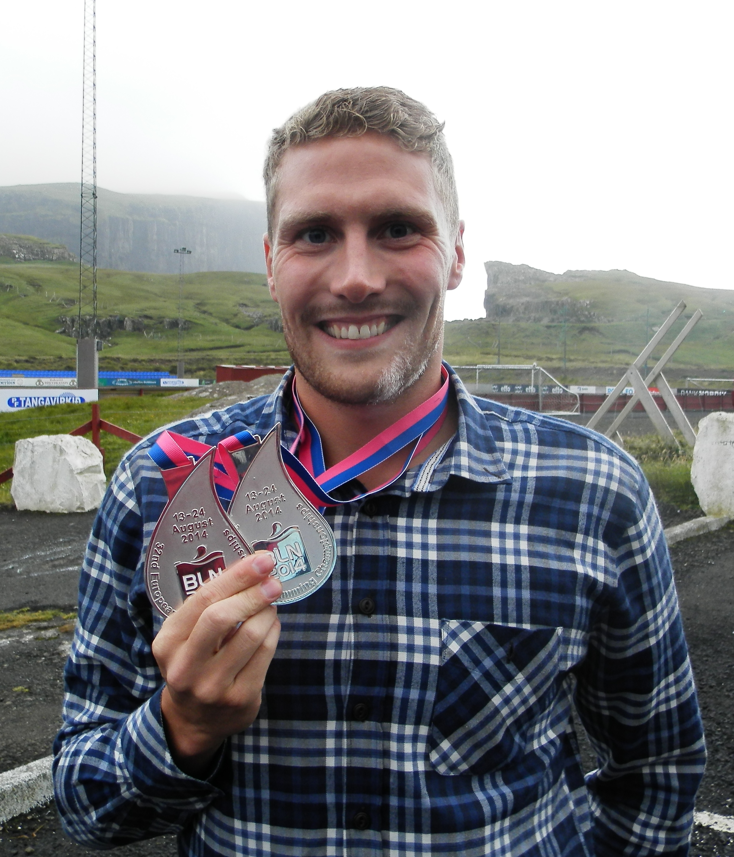 Pál Joensen is a Faroese swimmer. He is the best swimmer of the Faroes, the only Faroese swimmer who has won international medals. Here he is back in Vágur, his hometown, with two silver medals which he won at the European Aquatics Championships in Berlin in August 2014.